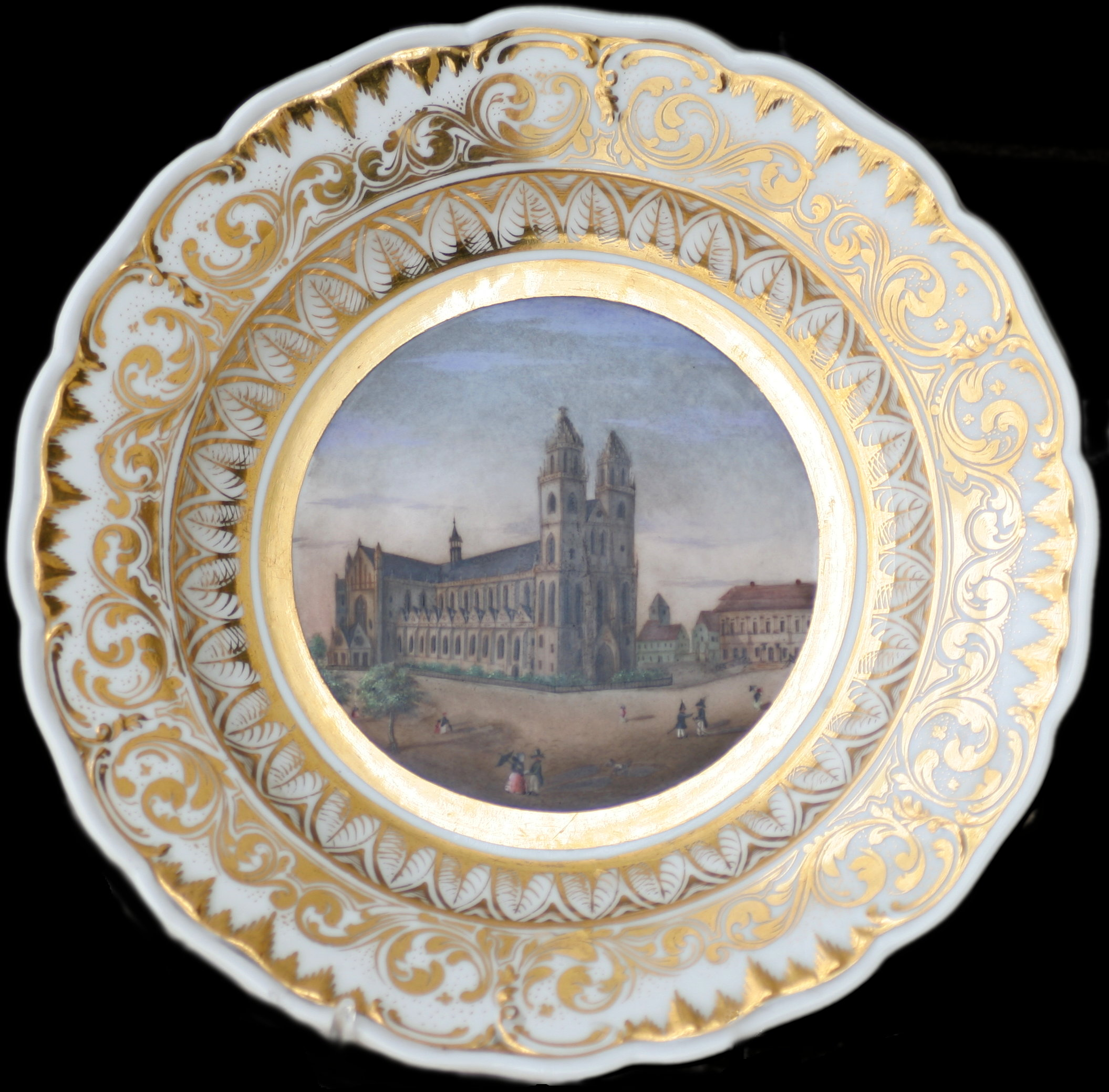 KPM "Königliche Porzellan Manufaktur" plate with picture of the cathedral of Magdeburg